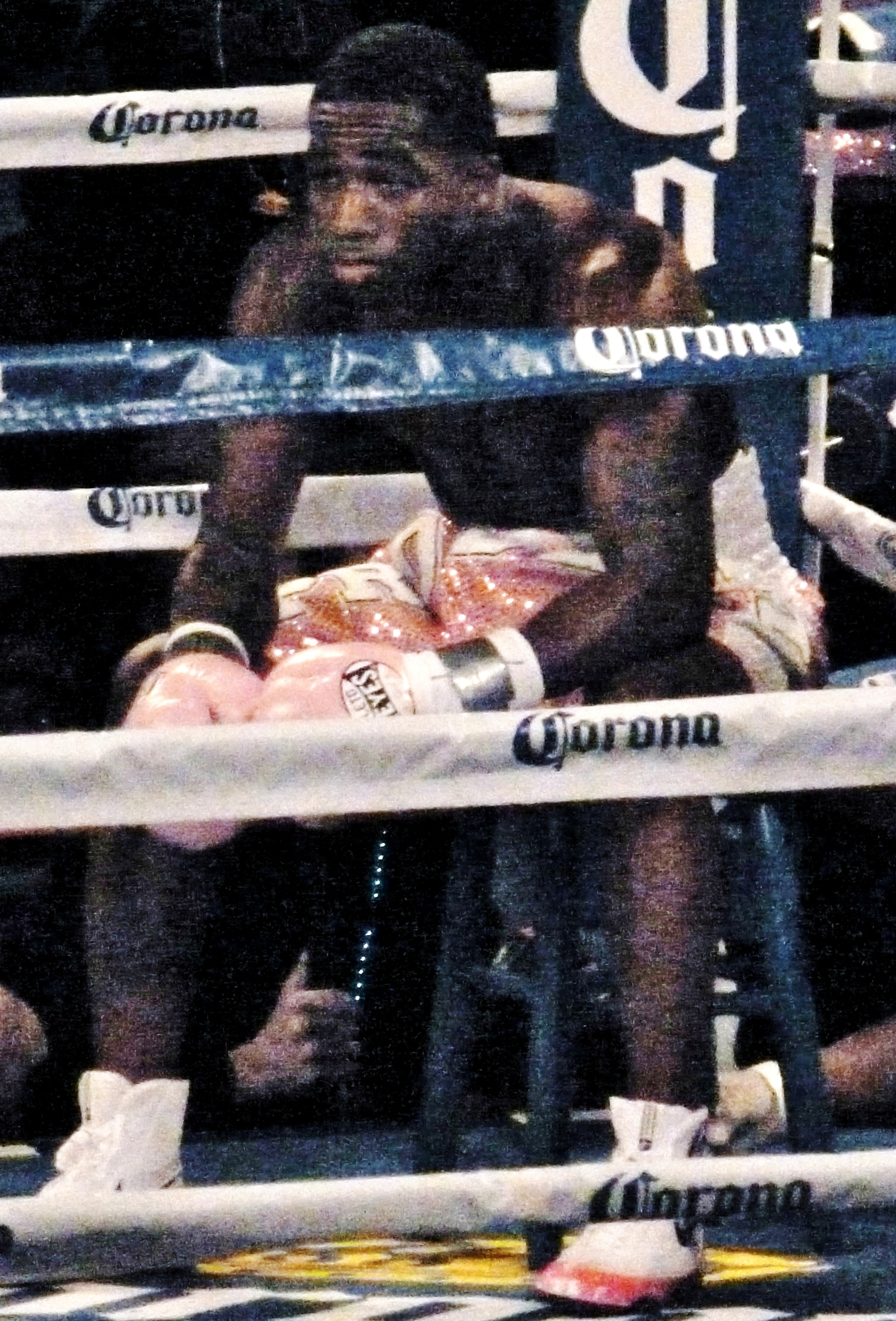 Adrien Broner during the fight against Antonio DeMarco at the Boardwalk Hall, Atlantic City, New Jersey on November 17, 2012.